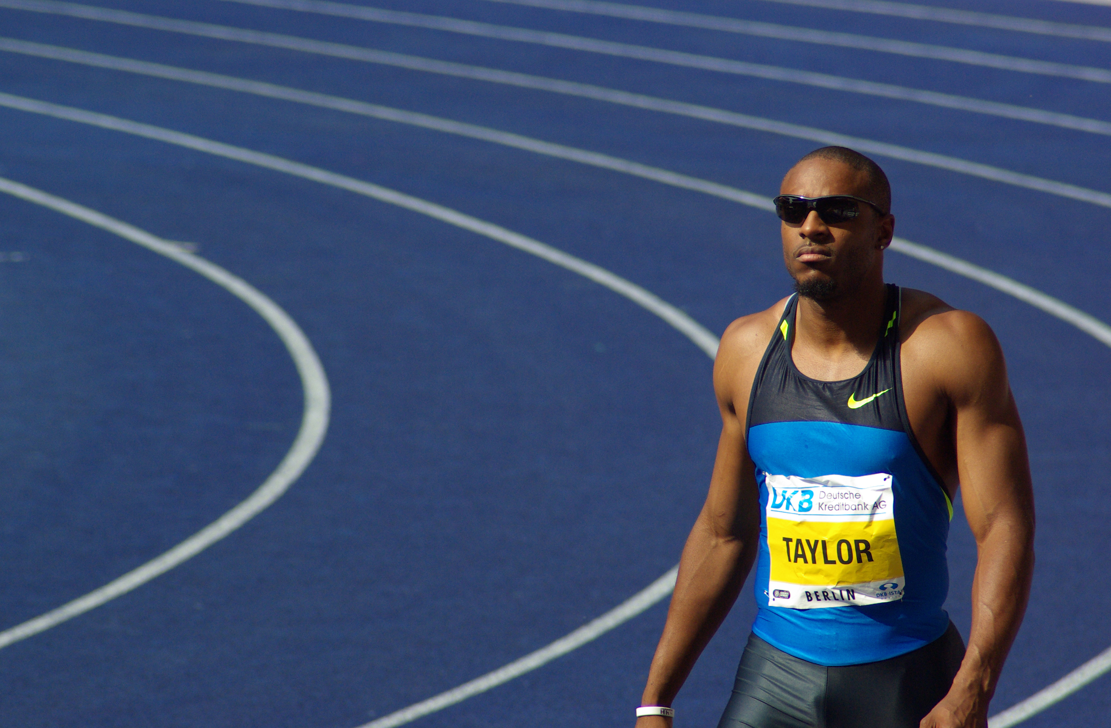 Angelo Taylor "Golden League" Meeting Istaf Berlin (Pool) in 2008